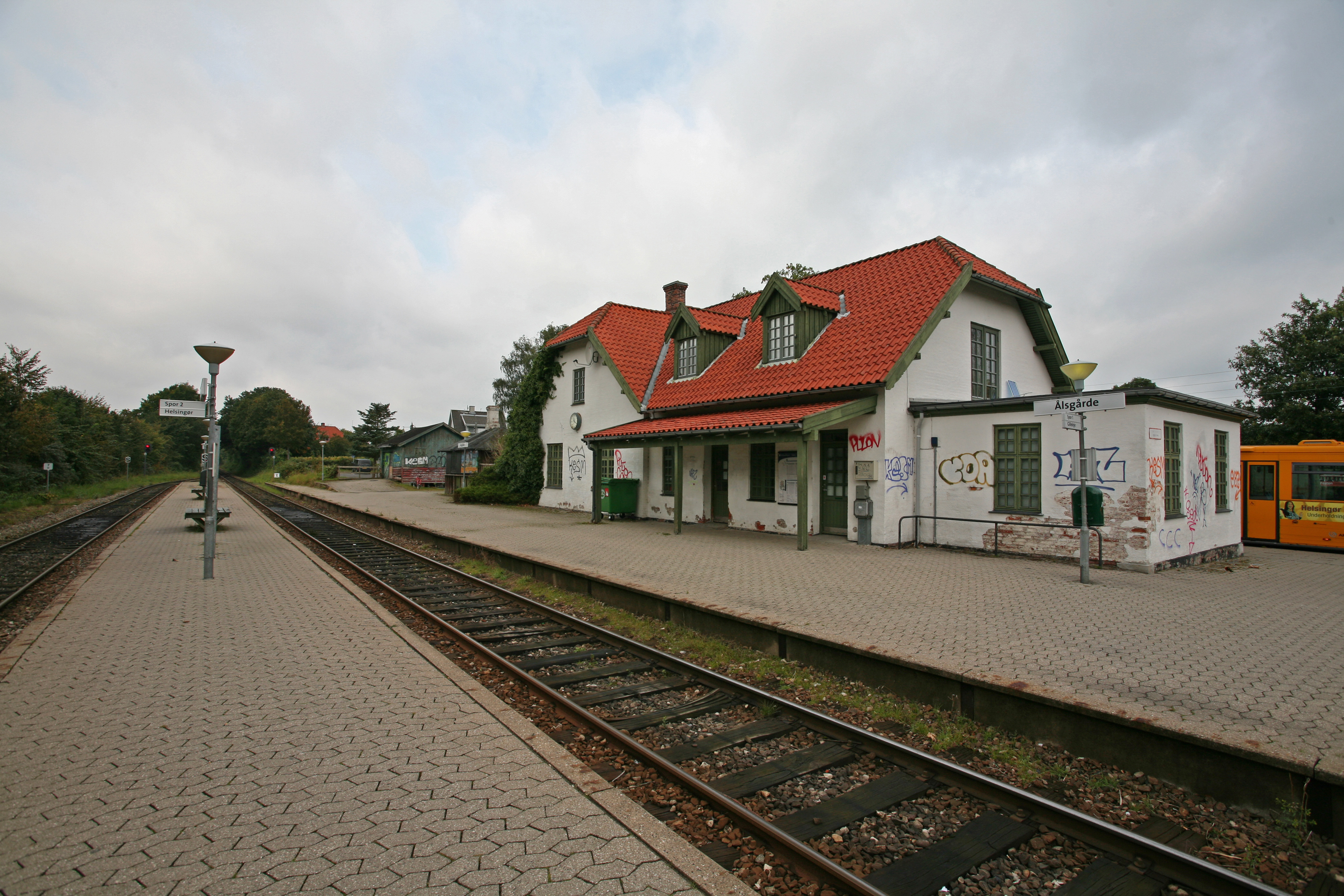 Picture of Ålsgårde Railway Station (Ålsgårde - Denmark)